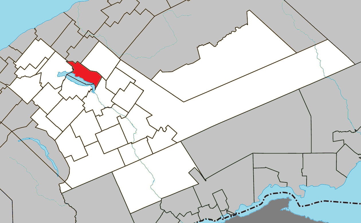 Location of Lac-Matapédia, Quebec within La Matapédia Regional County Municipality.